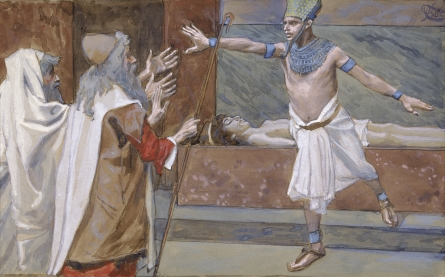 Pharaoh and His Dead Son, c. 1896-1902, by James Jacques Joseph Tissot (French, 1836-1902), gouache on board, 5 3/8 x 8 13/16 in. (13.8 x 22.5 cm), at the Jewish Museum, New York